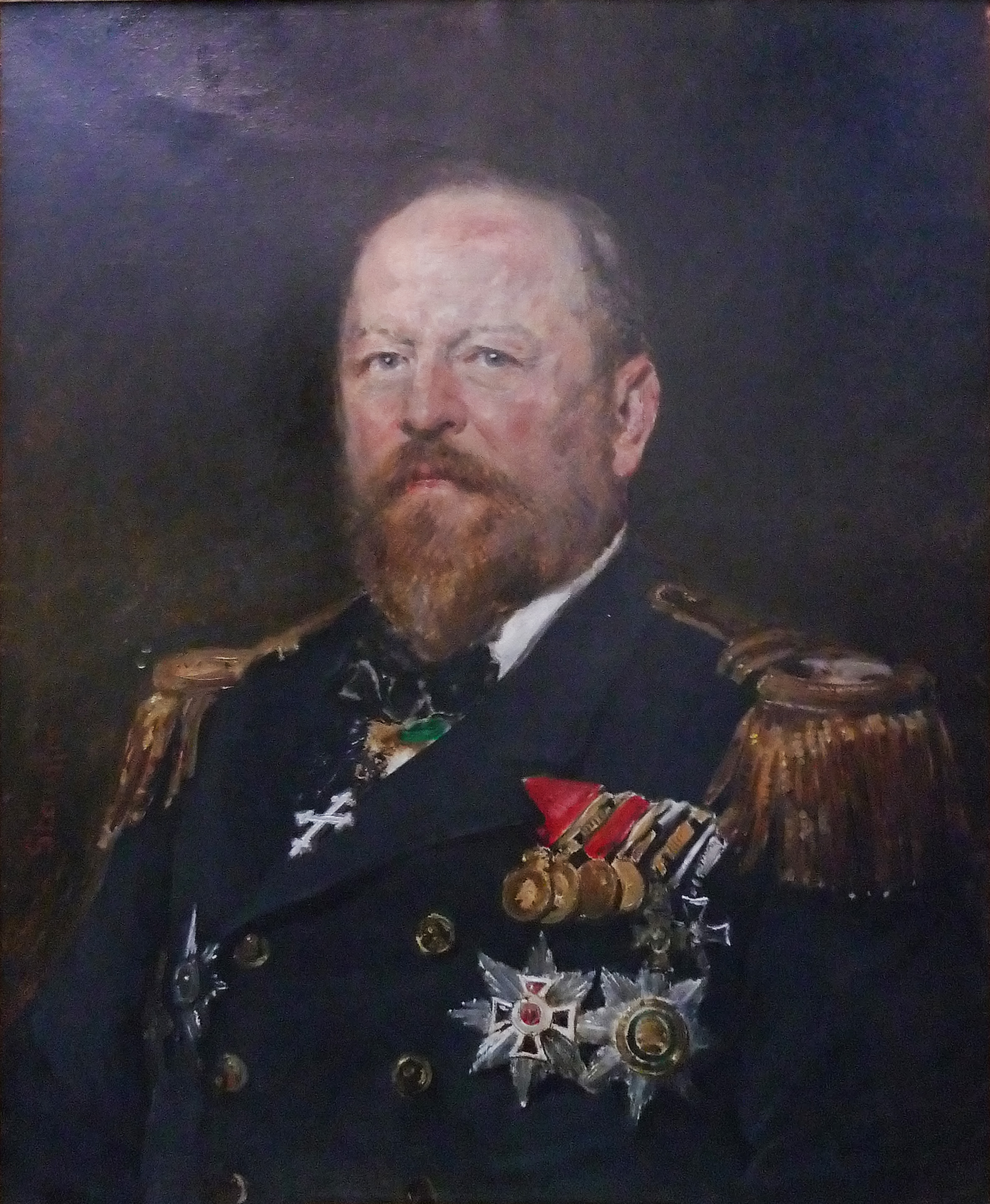 Admiral Hermann Freiherr von Spaun (1833-1919), Commander of the Austro-Hungarian Navy 1898-1904.